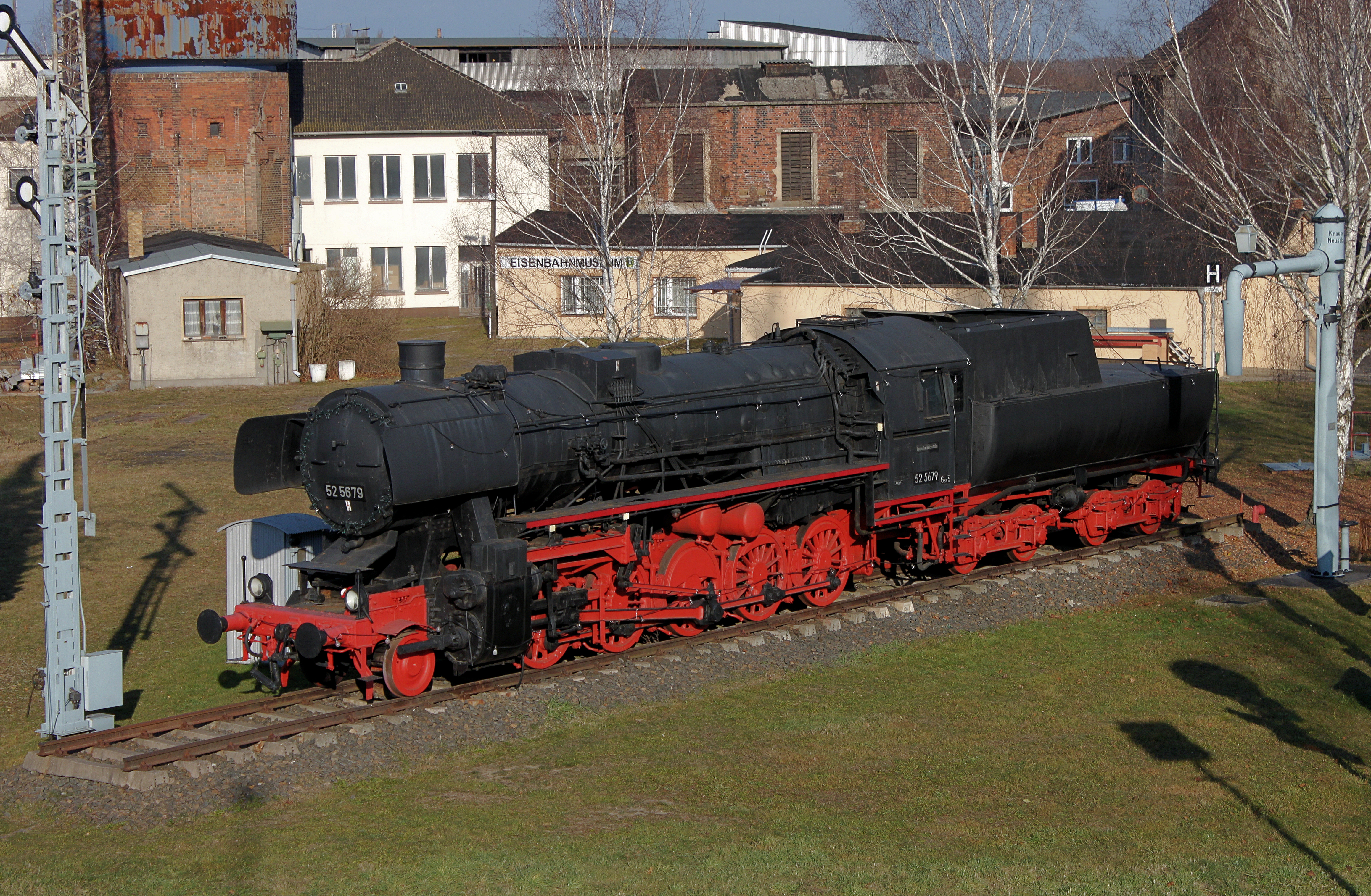 A Deutsche Reichsbahn's Class 52 steam locomotive in the Eisenbahnmuseum in Falkenberg/Elster.